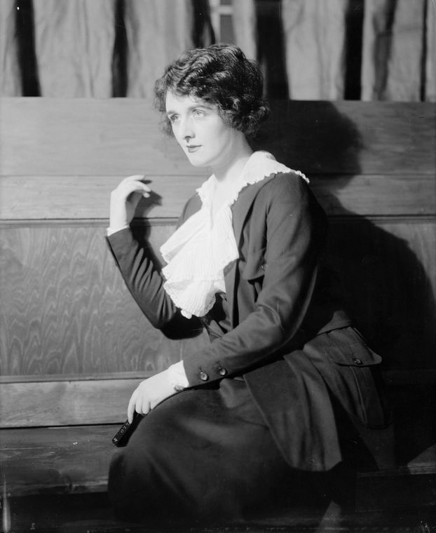 english actress Elisabeth Risdon (1887-1958) in G. B. Shaw's Heartbreak House (playing 'Ellie Dunn'), Garrick Theatre, New York